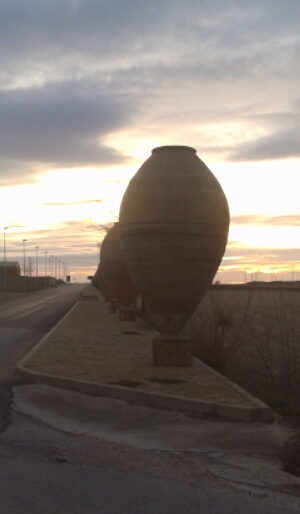 Paseo de las tinajas